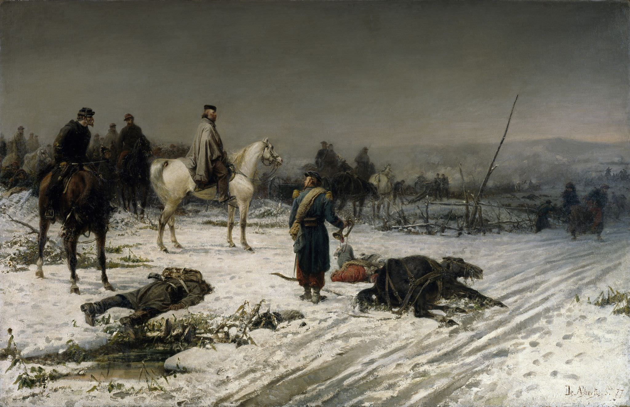 Franco-Prussian War, Italy, 19th century